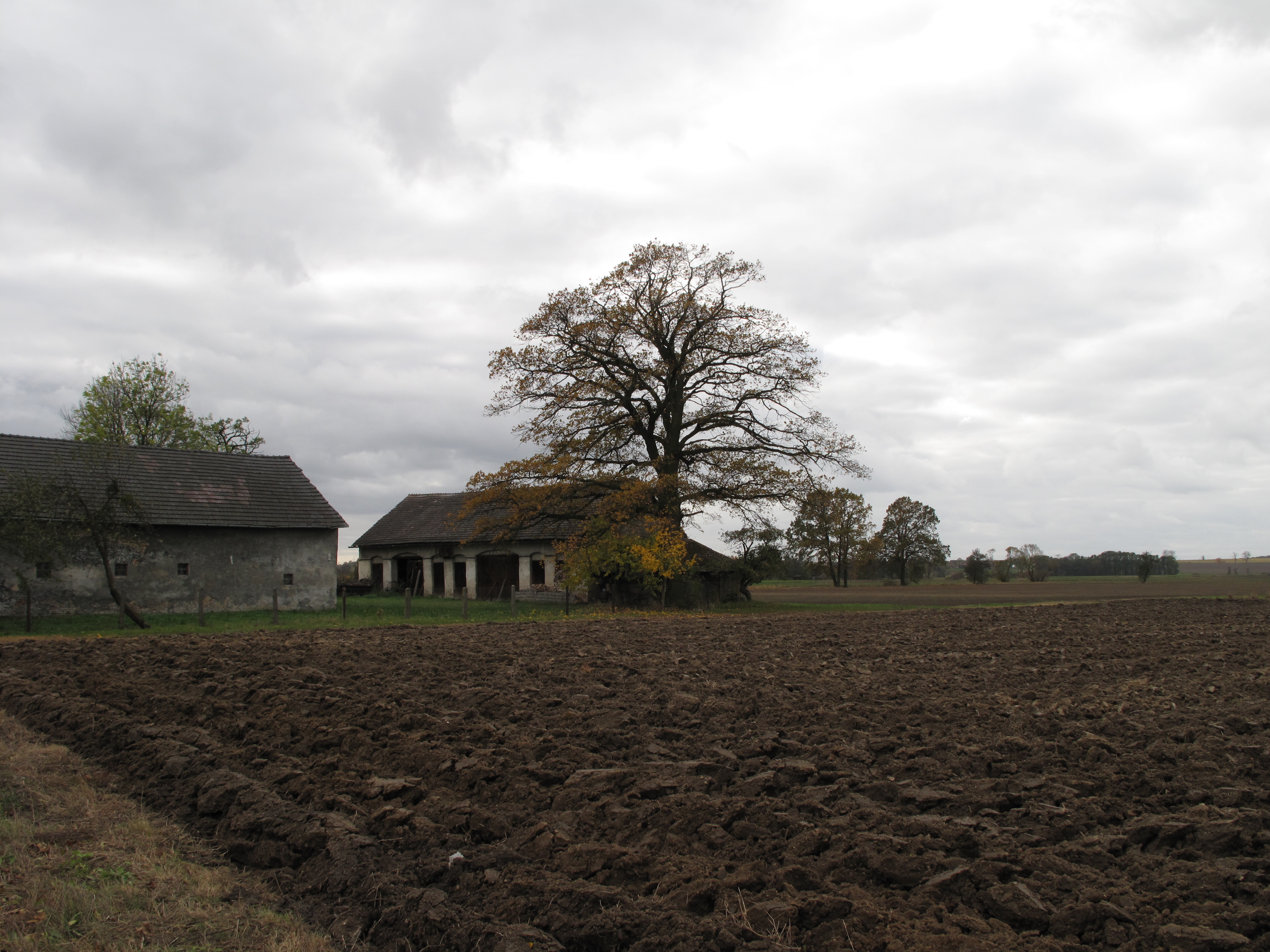 Roszowicki Las. Kędzierzyn-Koźle County, Poland.